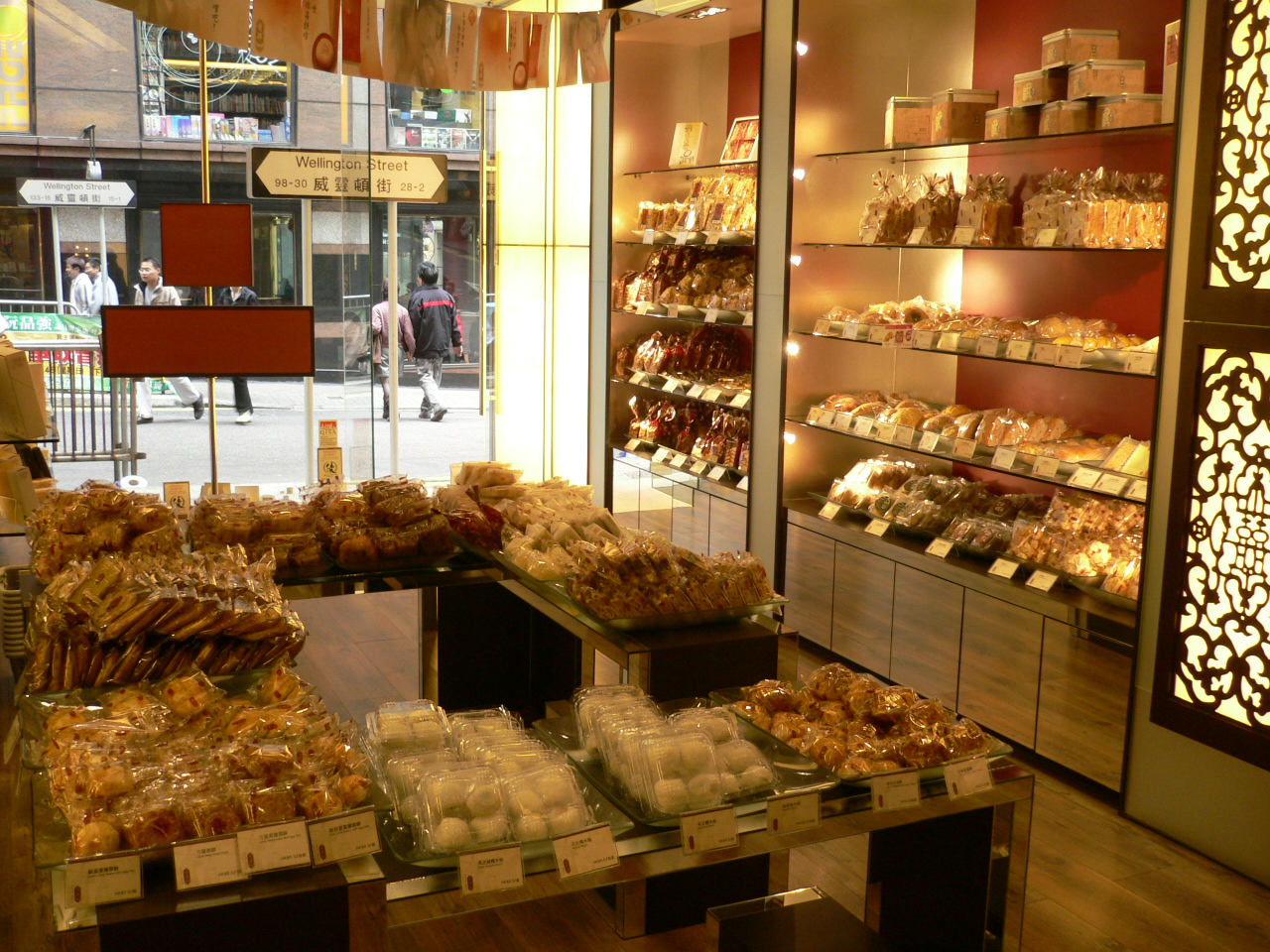 Inside the store of Kee Wah Bakery (奇華餅家) located at Wellington Street, Central, Hong Kong.